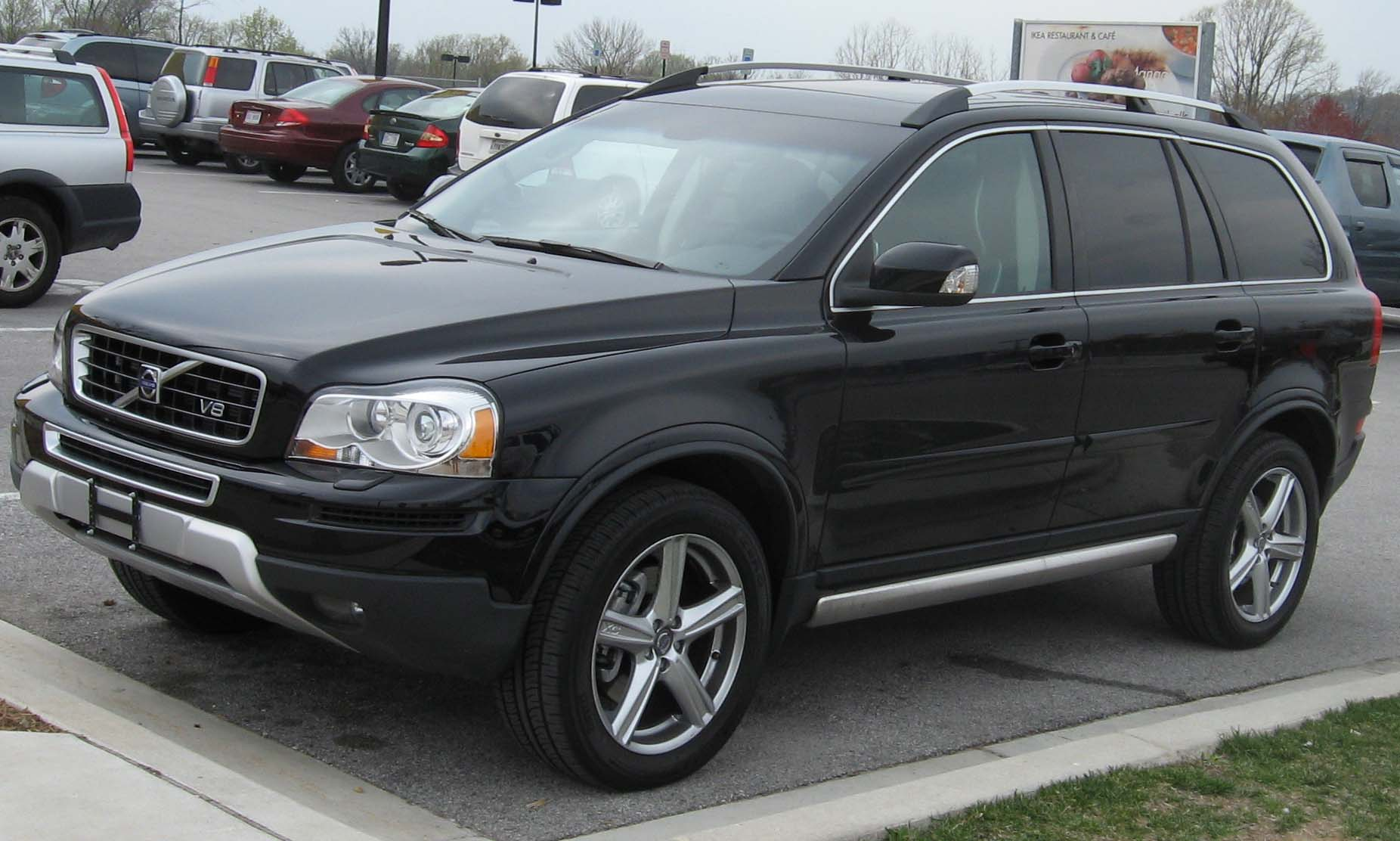 2007 Volvo XC90 photographed in USA.